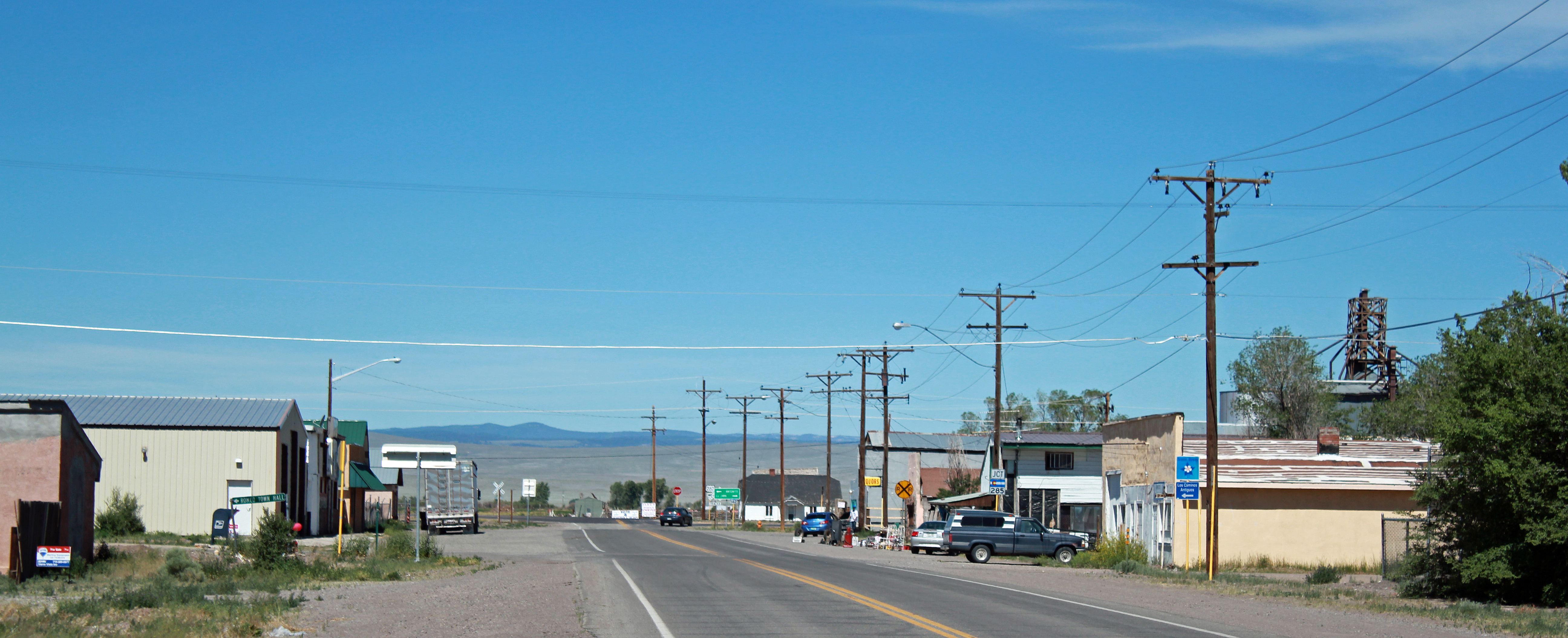 The town of Romeo, Colorado. The view is looking west on Main Street, which is also Colorado State Highway 142.